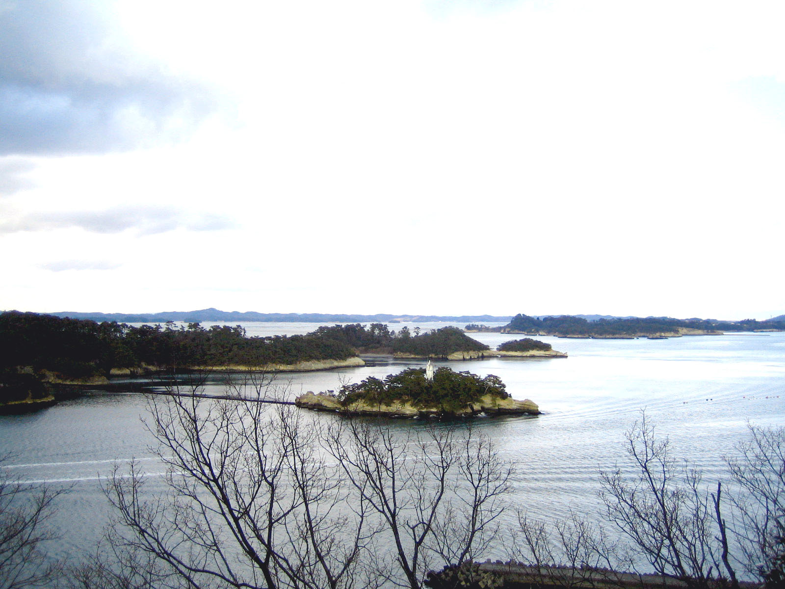 Matsushima from Tamonsan, one of the four wonderful viewpoints, called "Ikan"